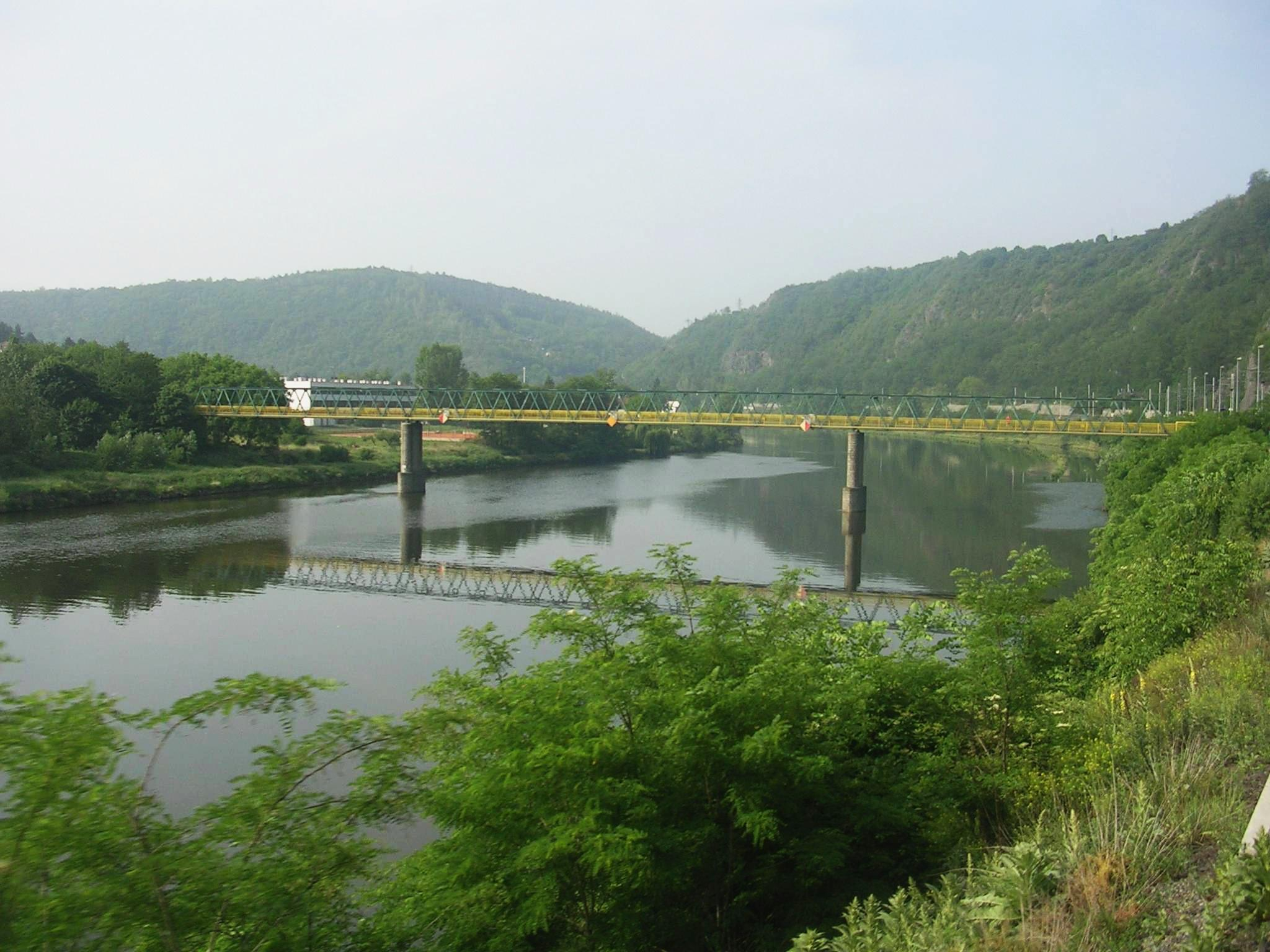 Footbridge over Vltava in Řež, the Czech Republic.